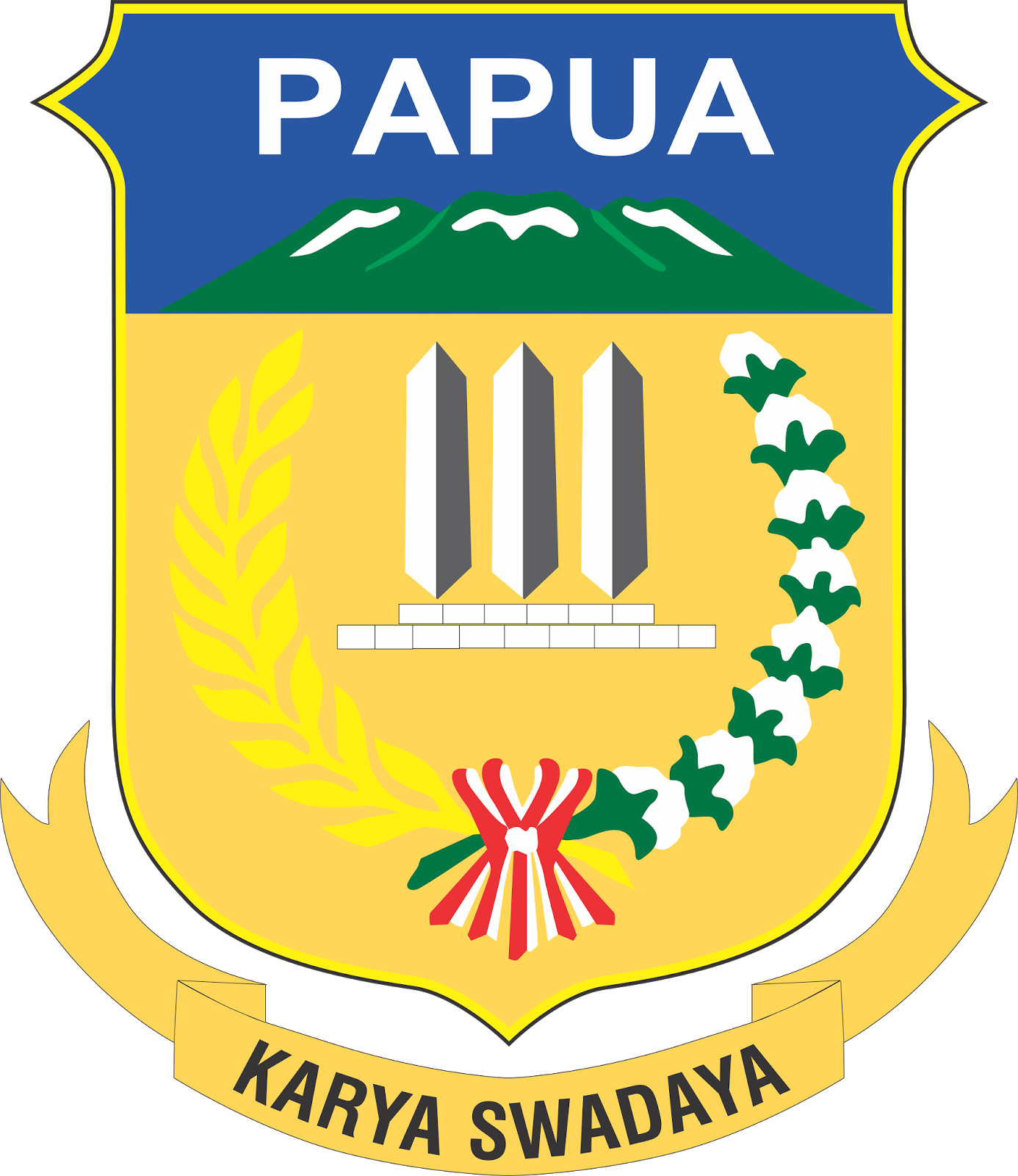 Coat of arms of Indonesian province of Papua.